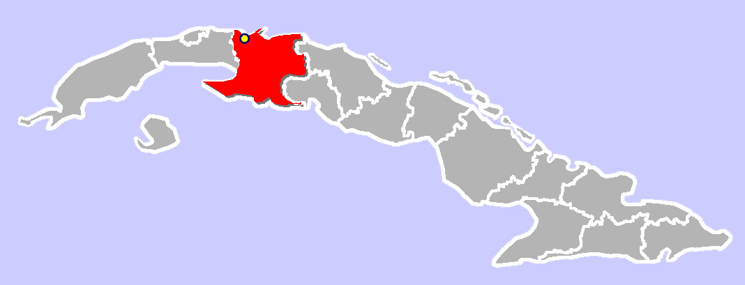 Location of Matanzas, Cuba